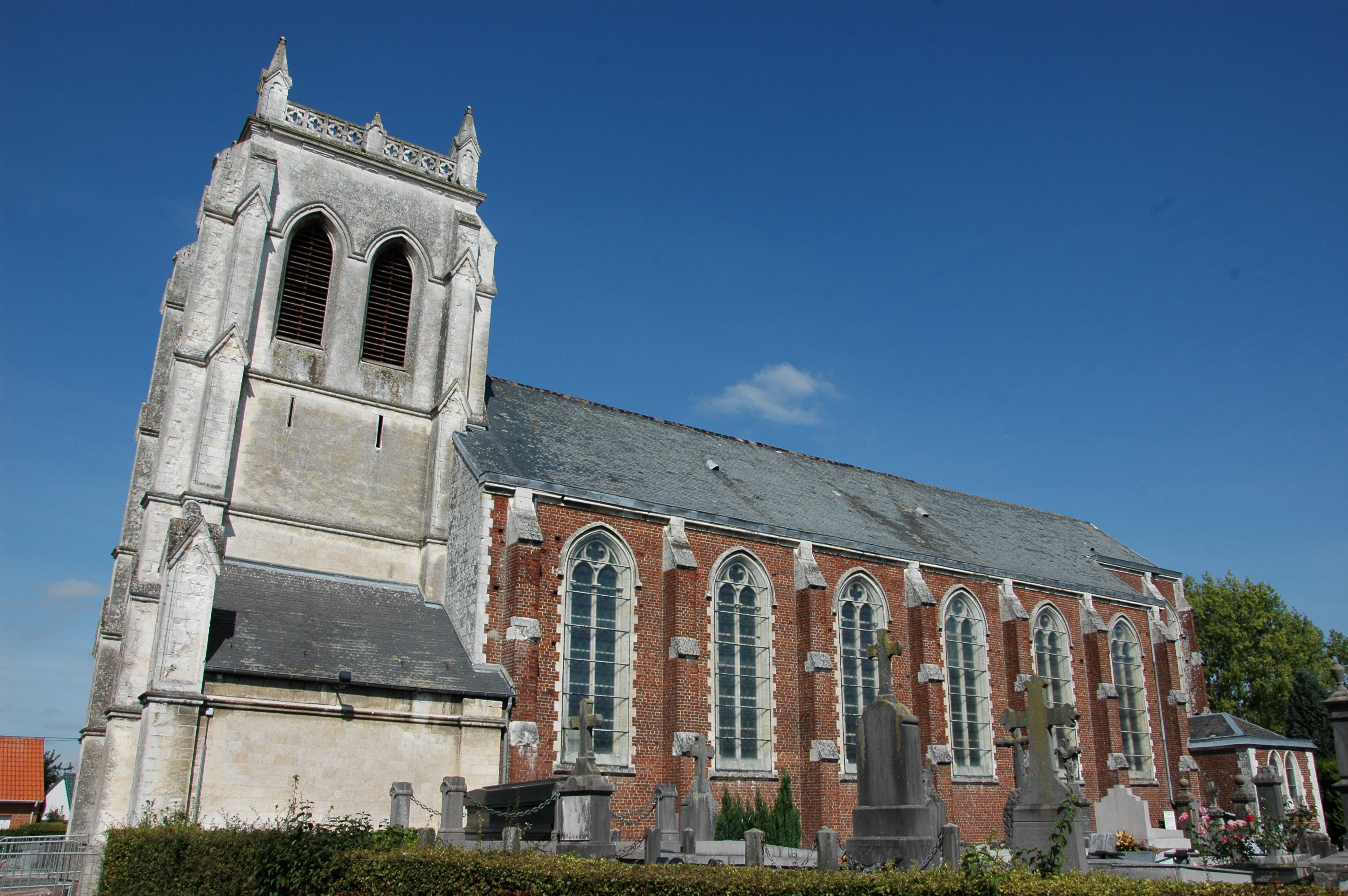 Tilques church